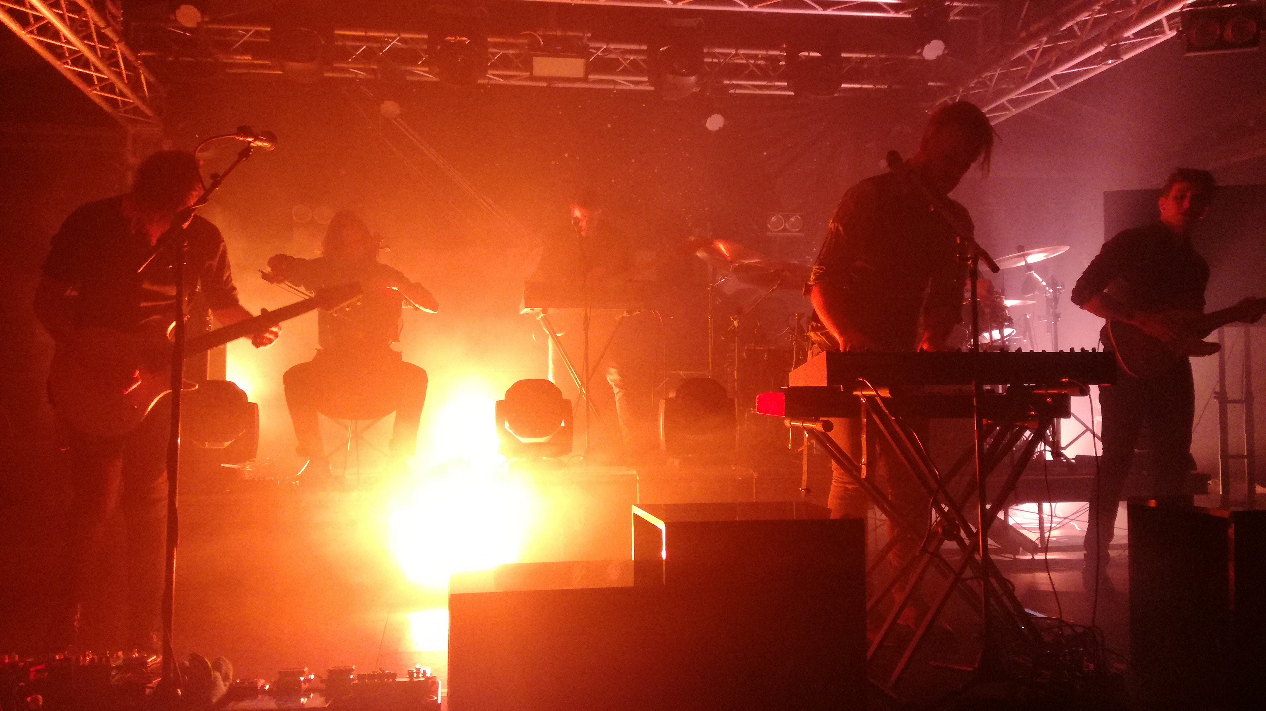 Leprous live at Circolo Magnolia, Milan, on November 13th, 2017